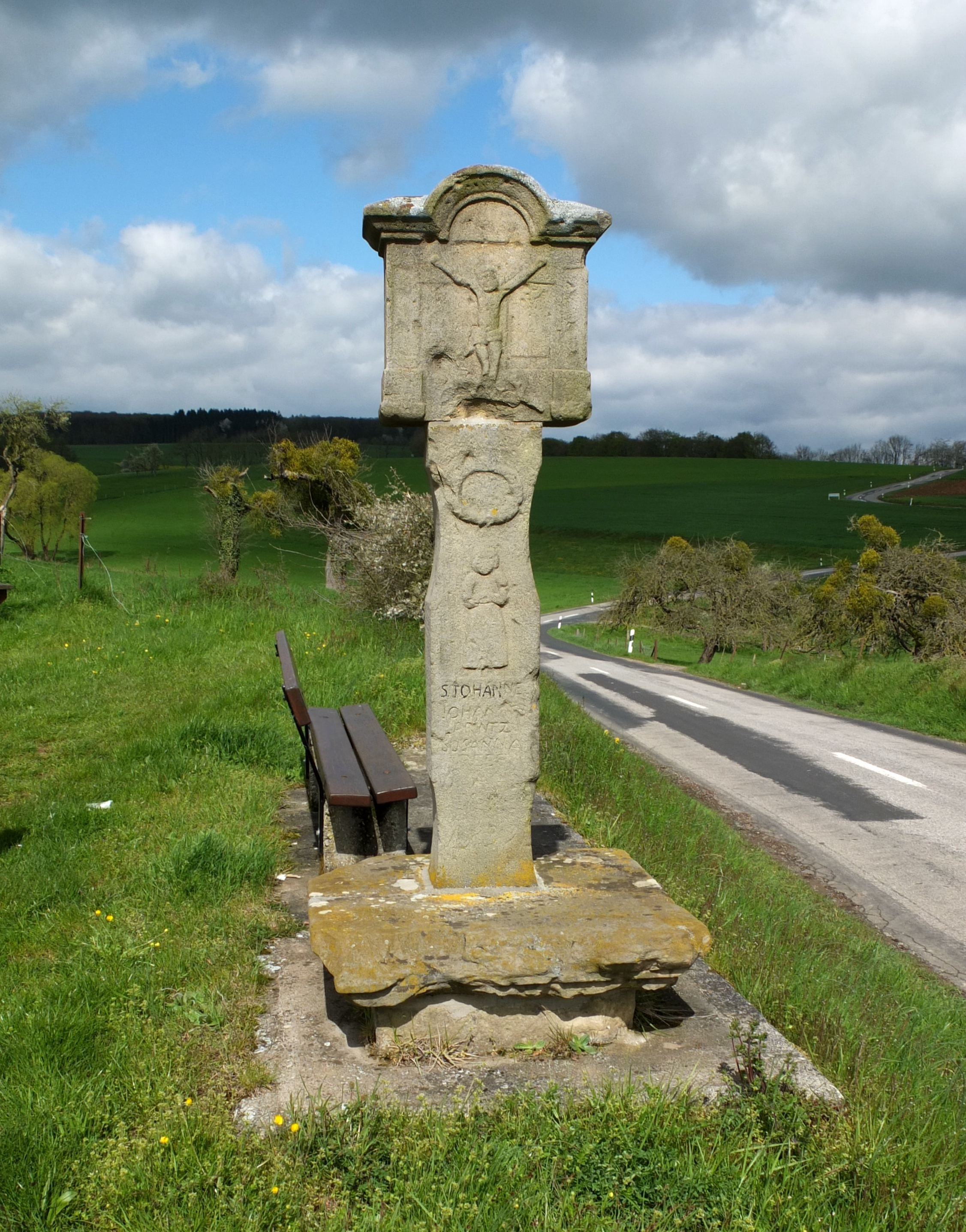 Wayside shrine near Reisdorf, Luxembourg, at the N10. Inscription: S. IOHANNES / IOHANNES / PRINTZ / SUSANNA / REEF 1839 (?)